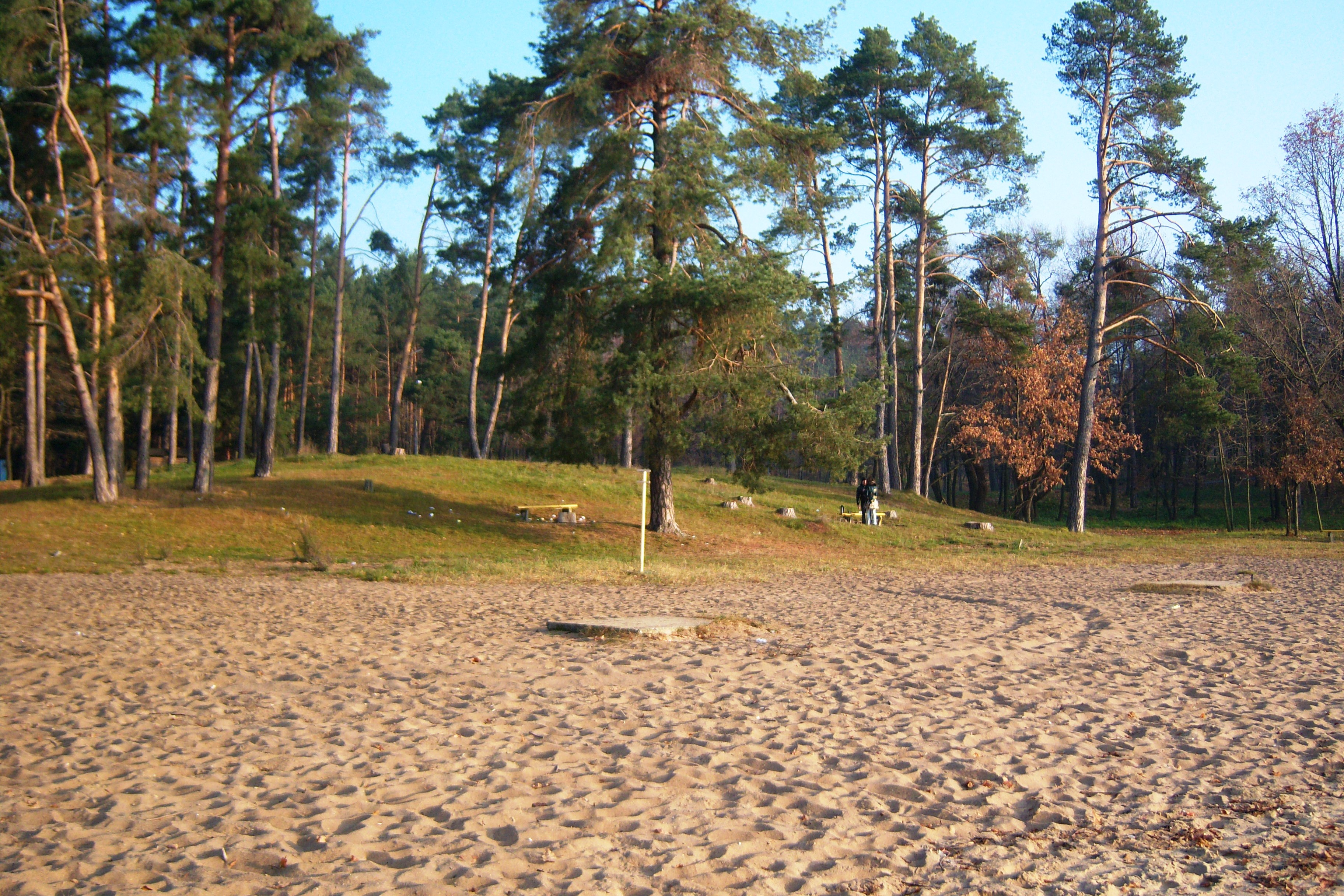 Pažaislis forest, park in Kaunas, view from the beach, Lithuania